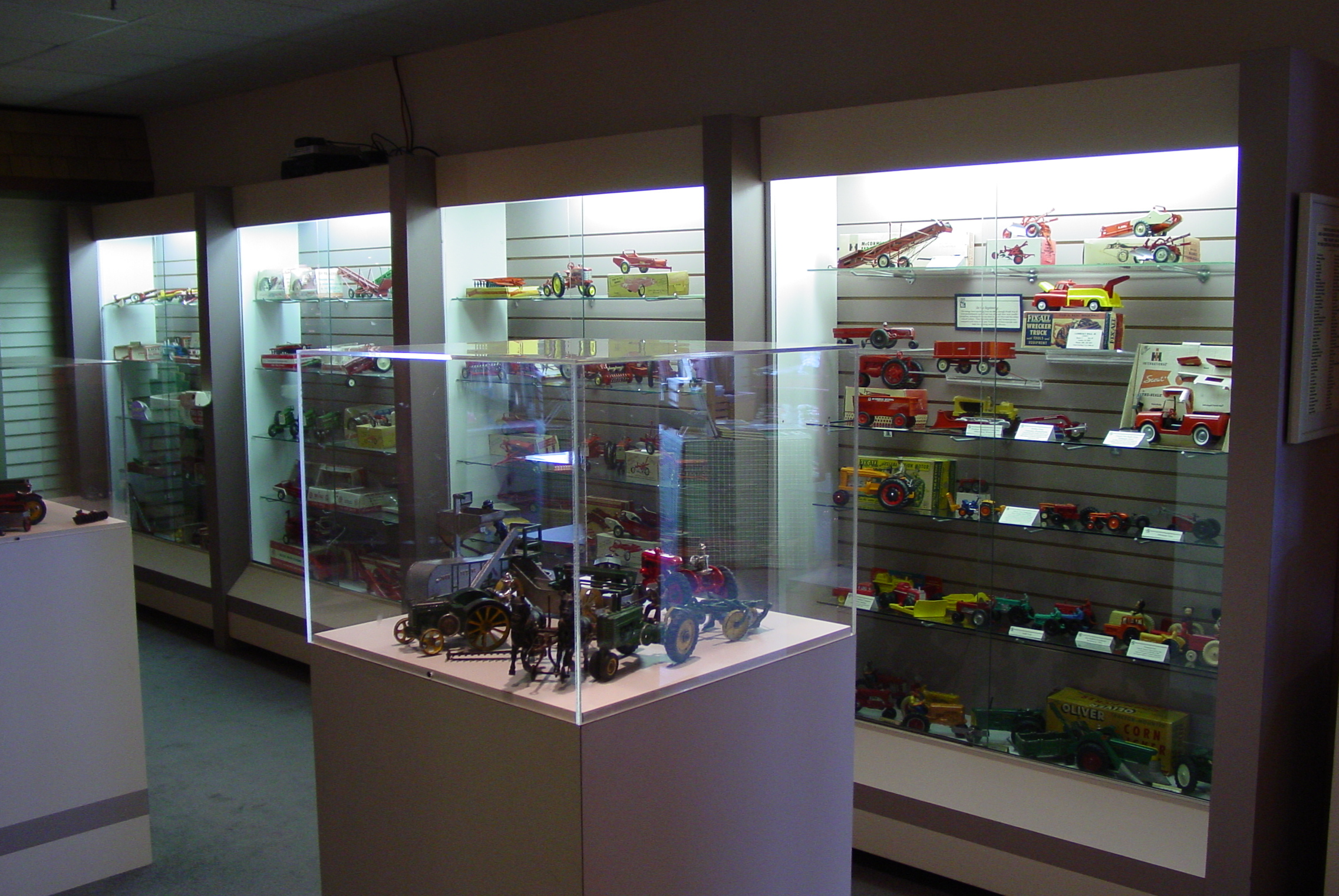 Inside the National Farm Toy Museum in Dyersville, Iowa, United States.